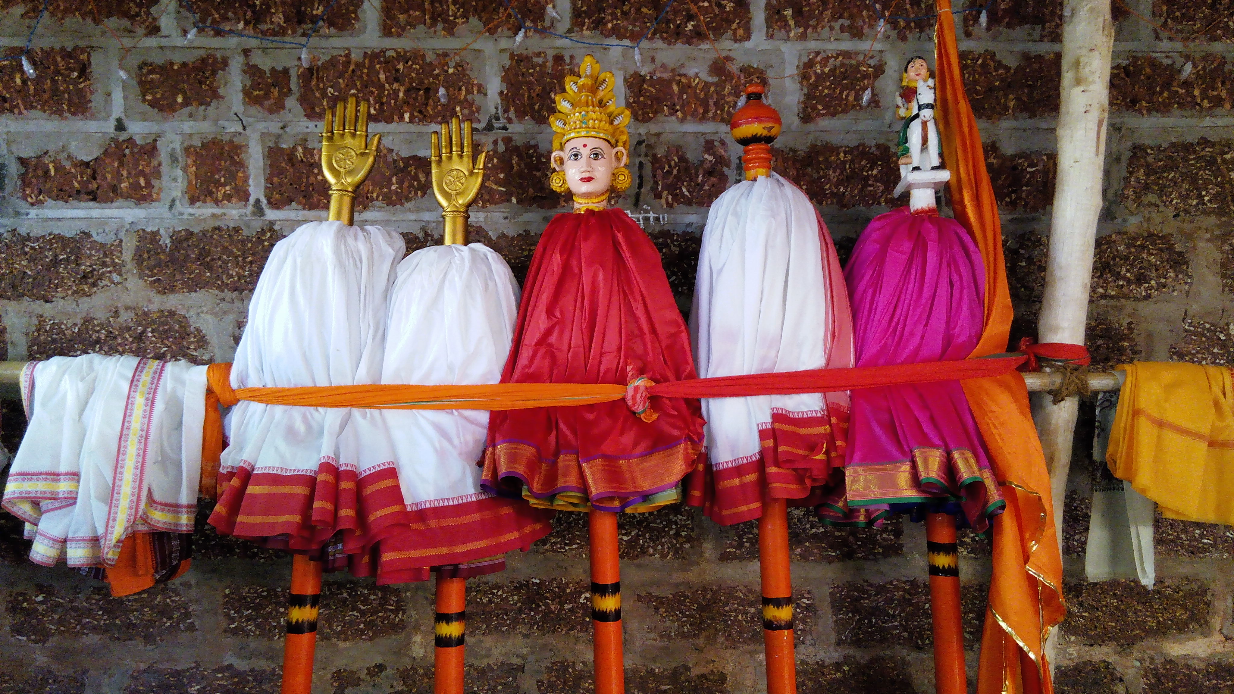 kunkeshwar yatra